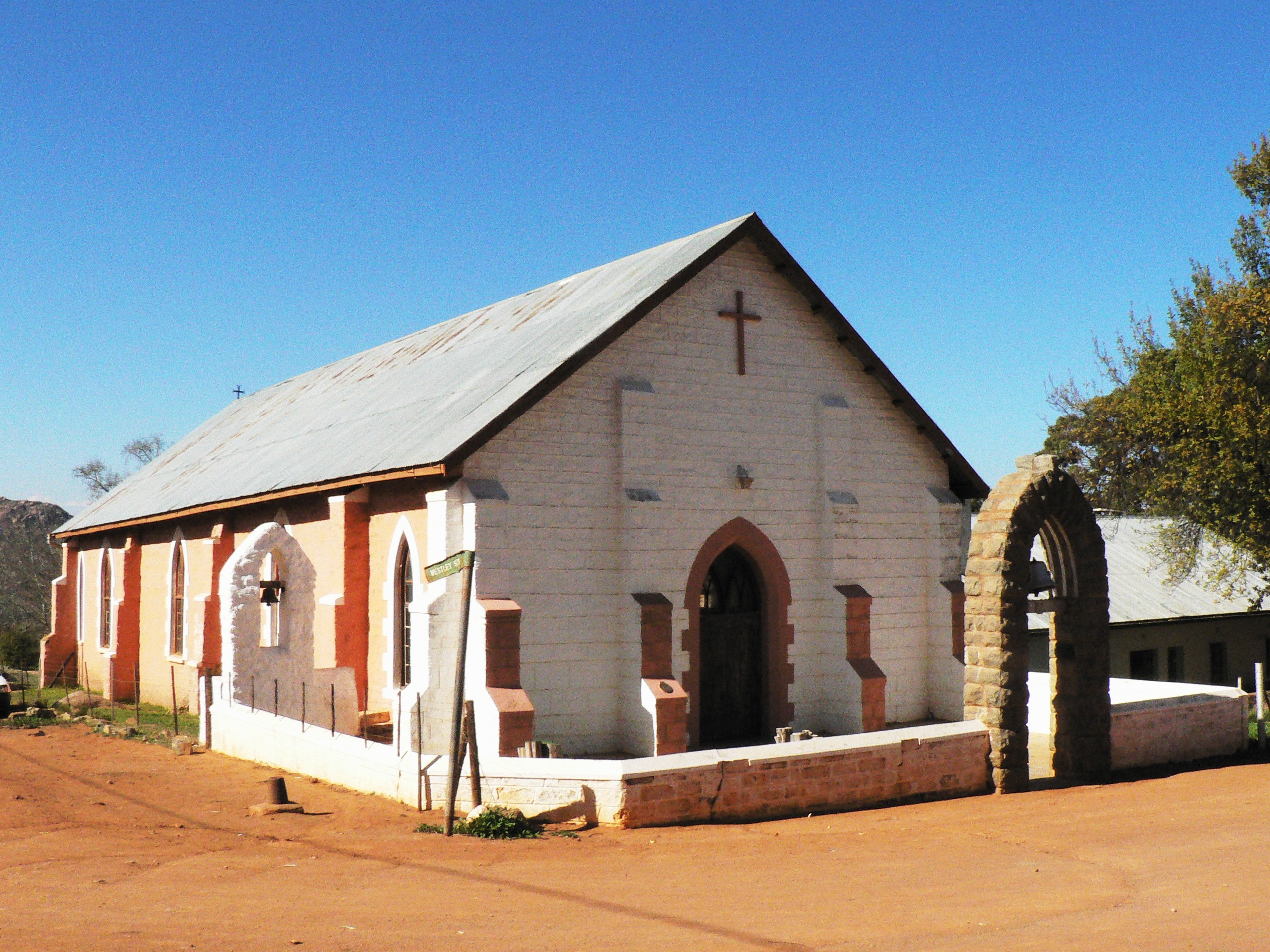 This media shows a South African Protected Site with SAHRA file reference 9/2/066/0012.